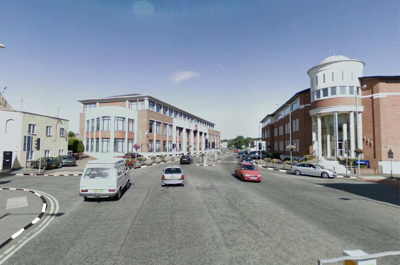 Pyrcroft rd., Chertsey. Next to Phoenix Plaza